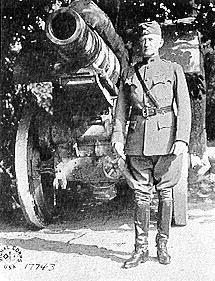 General Clarence Edwards standing next to an artillery gun.